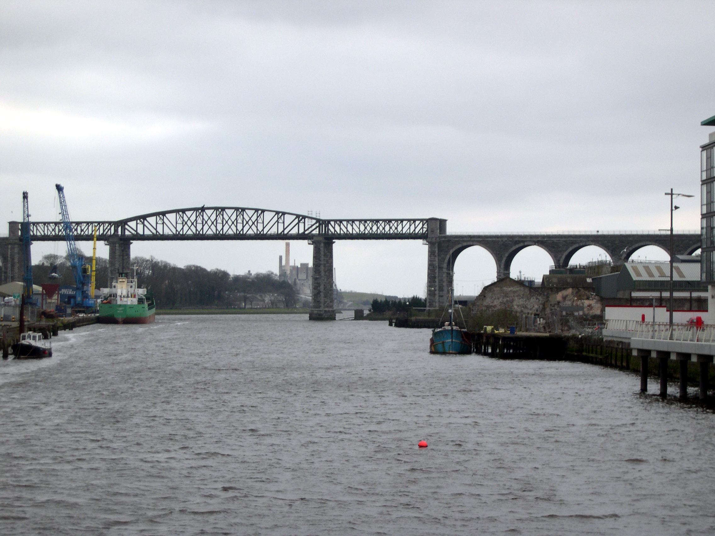 Railway bridge over Boyne, Drogheda, County Louth, Republic of Ireland